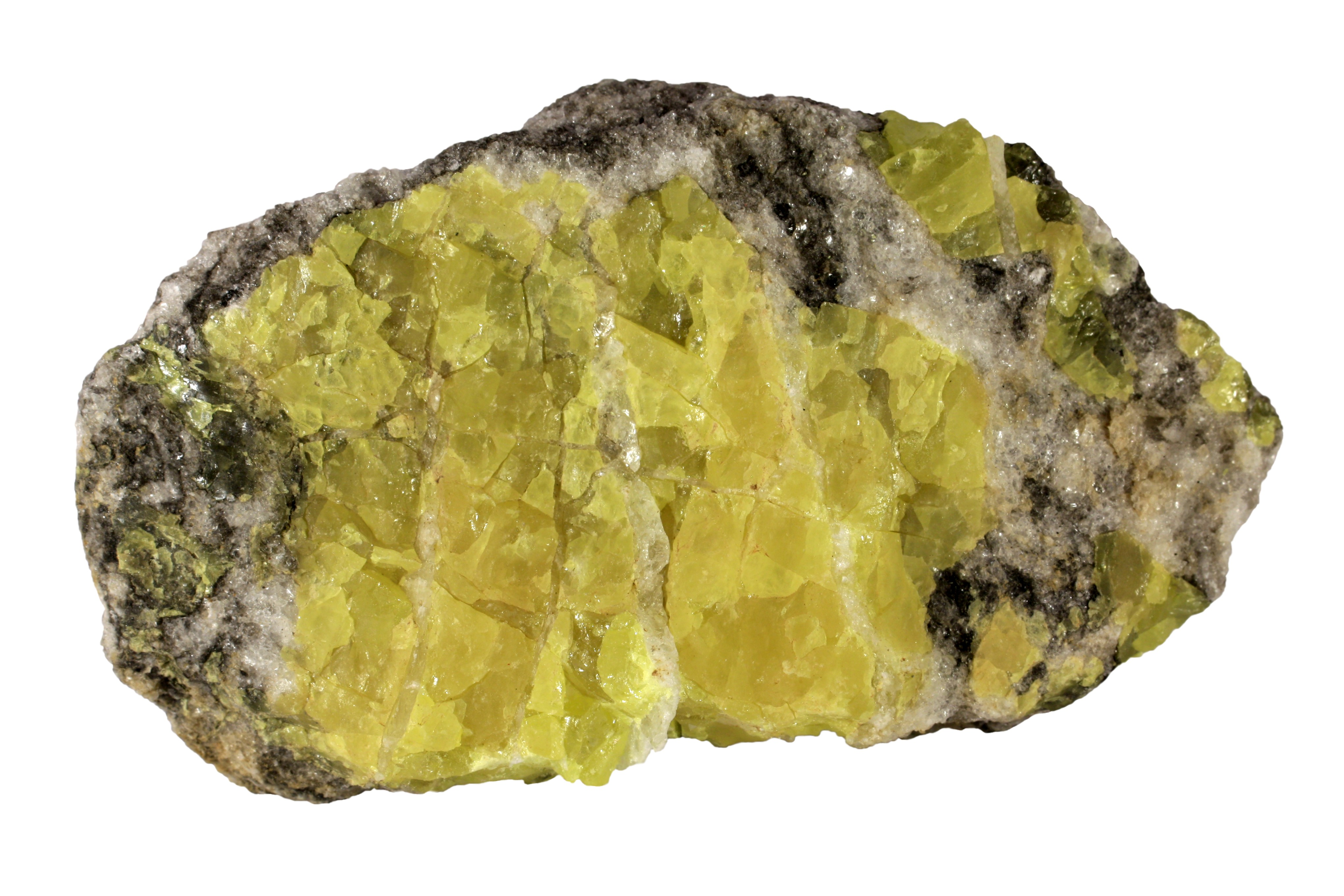 Sulfur (yellow) and gypsum (gray) forming a cap rock of salt dome. Sulfur is a product of bacterial activity. Salt dome contains anhydrite (calcium sulfate), especially in the upper parts (cap rock) because salt (NaCl) is more soluble and gets preferentially carried away by groundwater. Anhydrite becomes gypsum when hydrated. Salt domes are often associated with hydrocarbons (crude oil and natural gas) because salt domes are ideal structural traps which restrict the rise of hydrocarbons. These hydrocarbons are source of energy for bacteria who decompose anhydrite to form hydrogen sulfide, calcium carbonate and water: anhydrite (CaSO4) + CH4 (hydrocarbons) + bacteria = H2S (hydrogen sulfide) + limestone (CaCO3) + water. H2S reacts with oxygen to form elemental sulfur and water: 2H2S + O2 = 2S + 2H2O. So, this rock is a perfect illustration how the cap rock of a salt dome looks like which also contains crude oil or natural gas. The width of the specimen is 11 cm. Additional information from the source: [2]